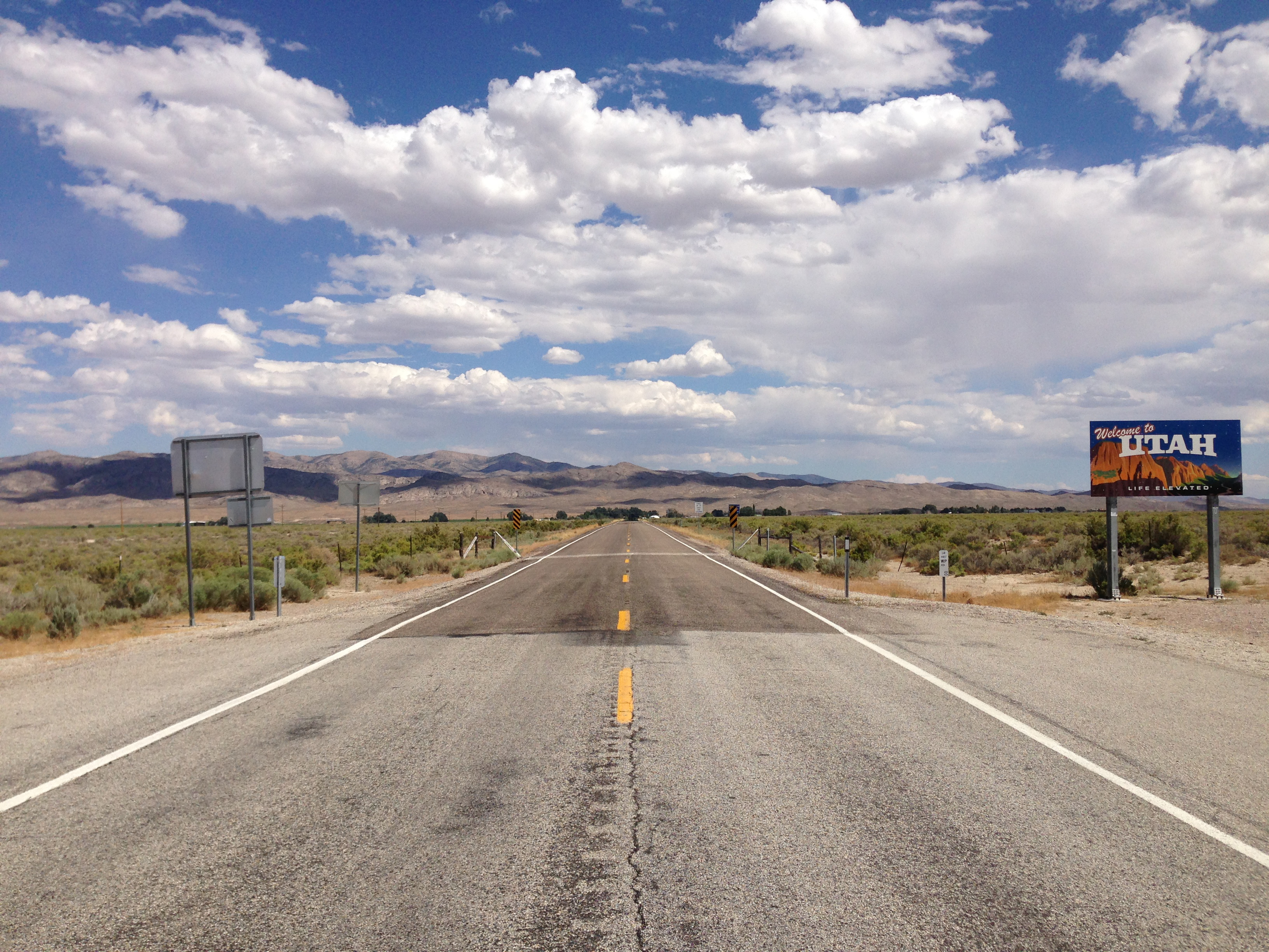 View south along Nevada State Route 487 (Baker Road) at the Utah state line and junction with Utah State Route 21 in White Pine County, Nevada